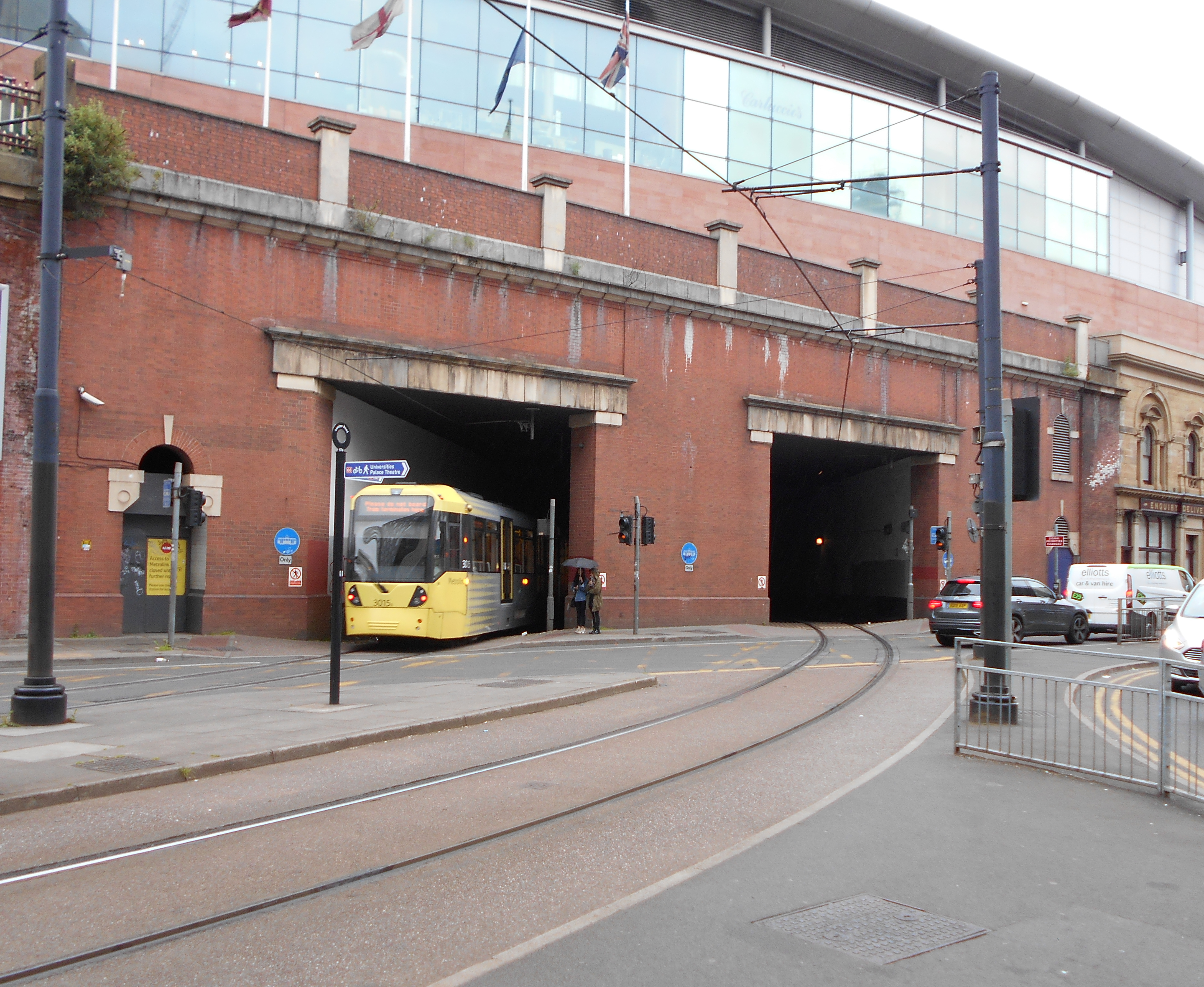 A Metrolink tram entering the tram stop under Piccadilly railway station via the entrance from London Road